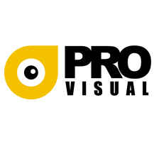 logo of Provisual oy